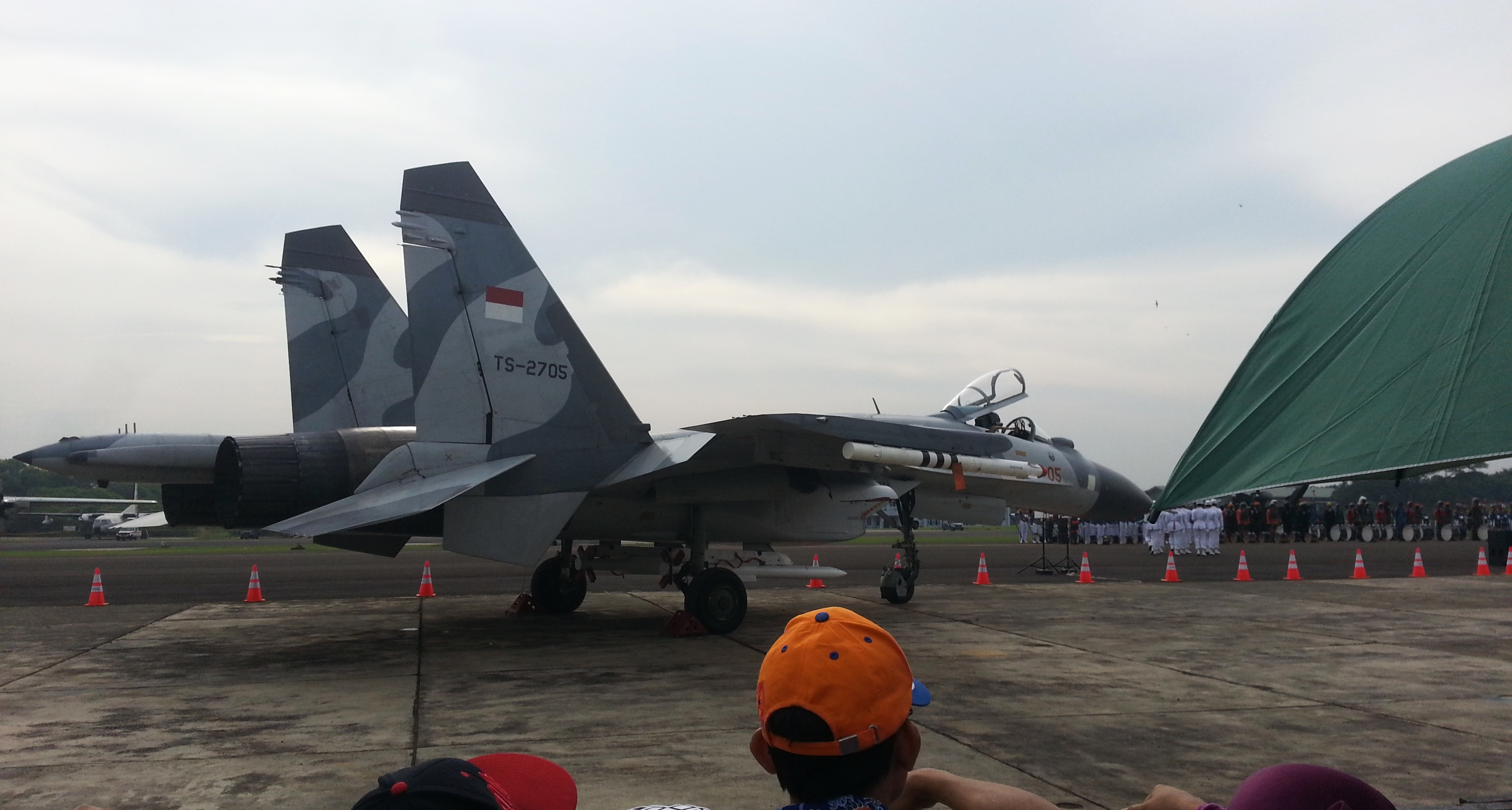 TS-2705, Indonesian Air Force, 11th Air Squadron